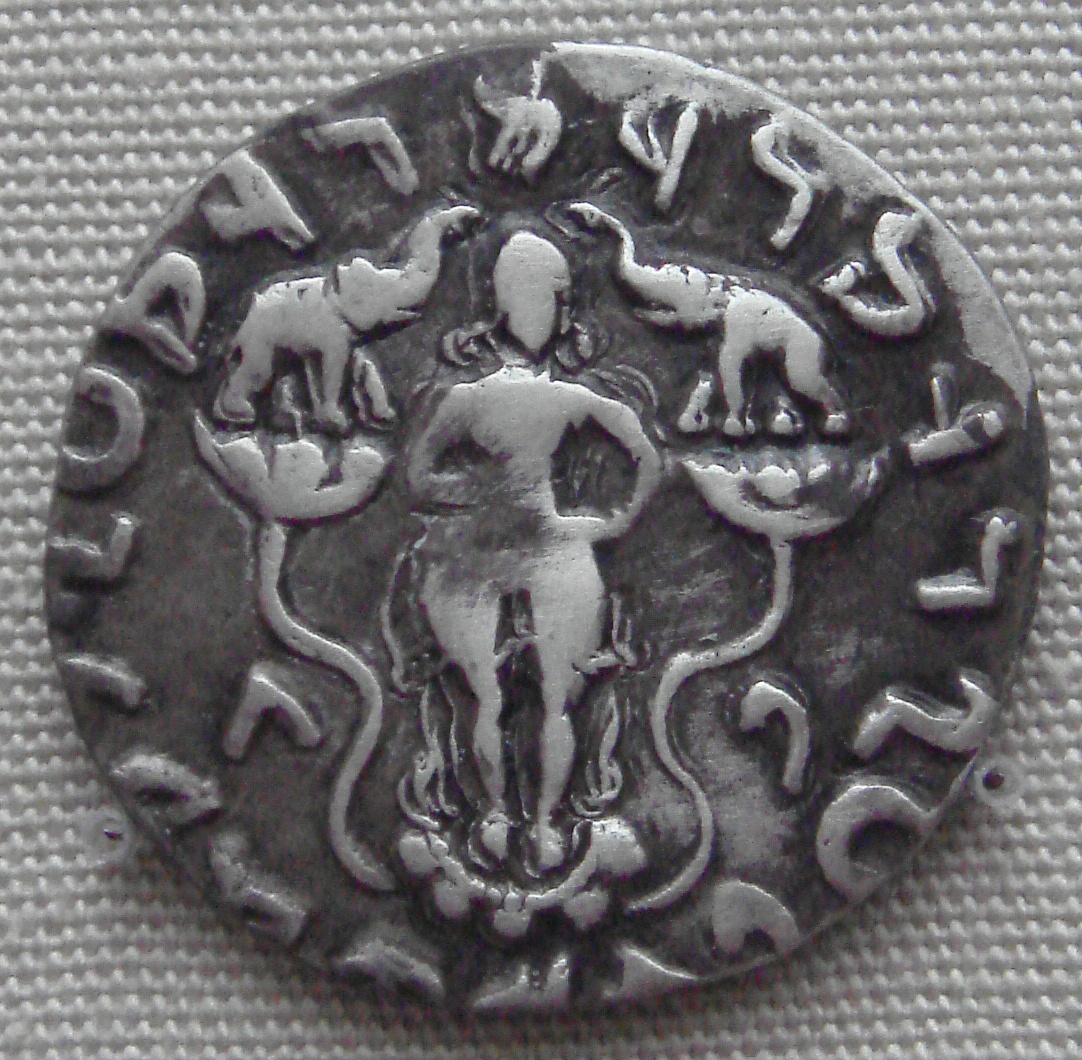 Azilises_Gaja_Lakshmi_standing_on_a_lotus_1st_century_BCE.